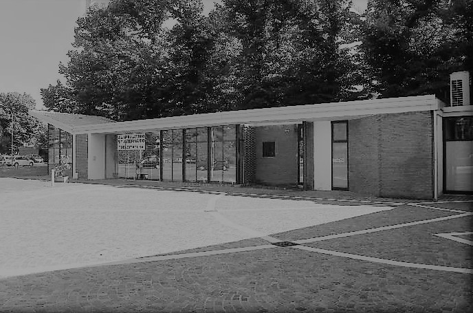 Gualtiero Galmanini, Fuel Station redesign, Mantova, Italy, 1958